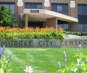 Murray City Hall